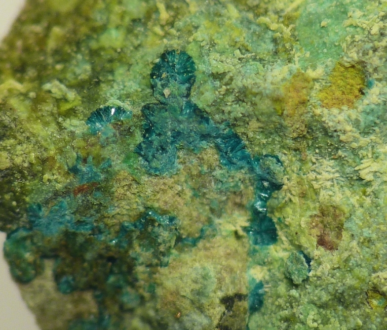 Astrocyanite-(Ce) Locality: Kamoto East Open cut, Kamoto, Kolwezi District, Katanga (Shaba), Democratic Republic of the Congo Field of view 3 mm. Specimen and photo Leon Hupperichs.